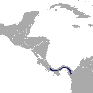 Slaty Slender Mouse Opossum (Marmosops invictus) range